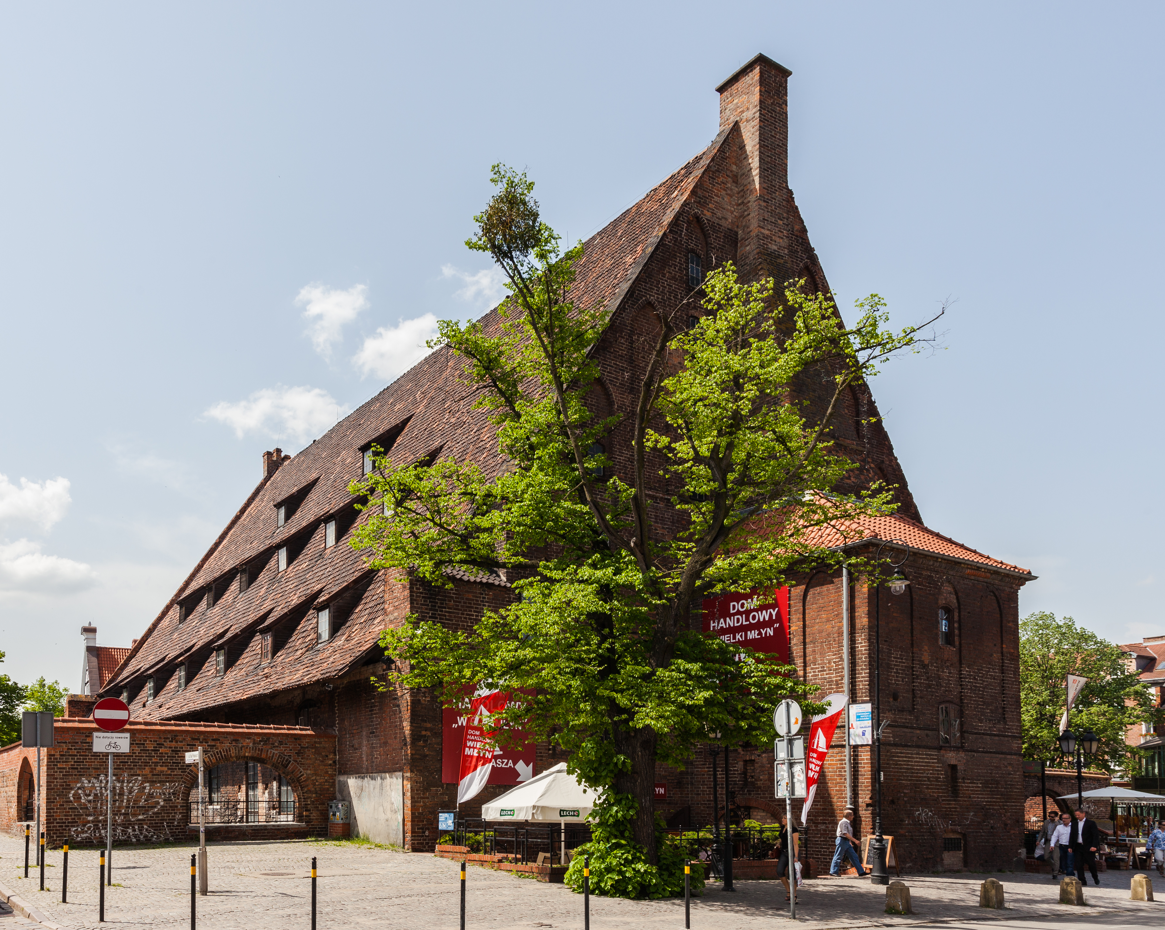 Great Mill, Gdansk, Poland